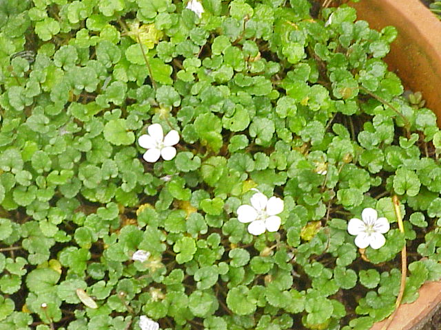 Species: Erodium reichardii Family: Geraniaceae Image No. 2